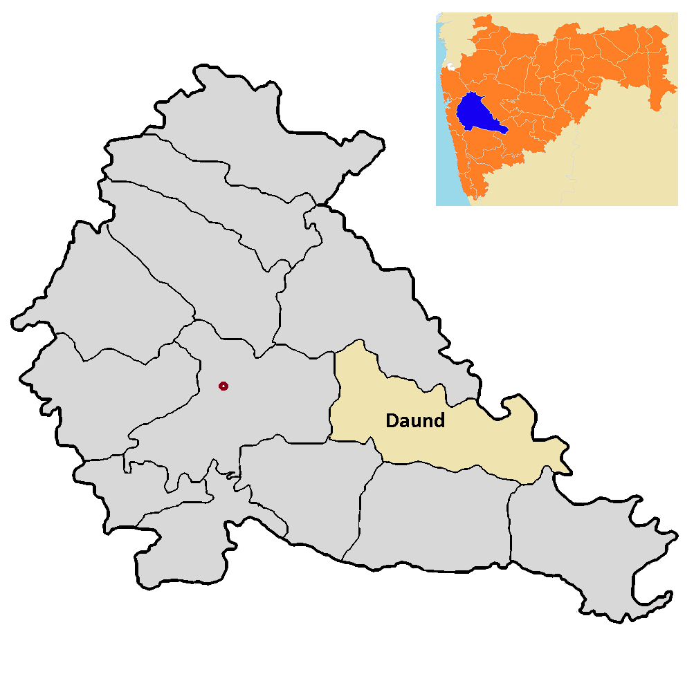 Daund tehsil in Pune district